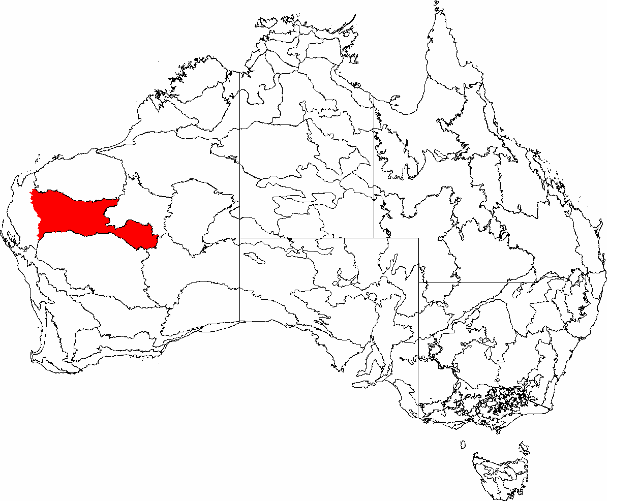 This is a map of the Interim Biogeographic Regionalisation of Australia (IBRA), with state boundaries overlaid. The Gascoyne region is shown in red.